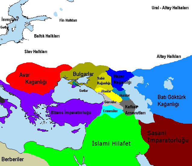 The Pontic steppe region, c. AD 650. Category:Historical maps by User:Briangotts Category:Maps of the history of Russia